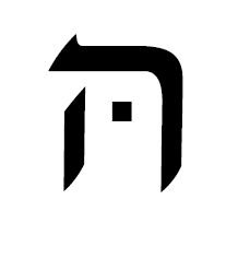 Hebrew mapik sign